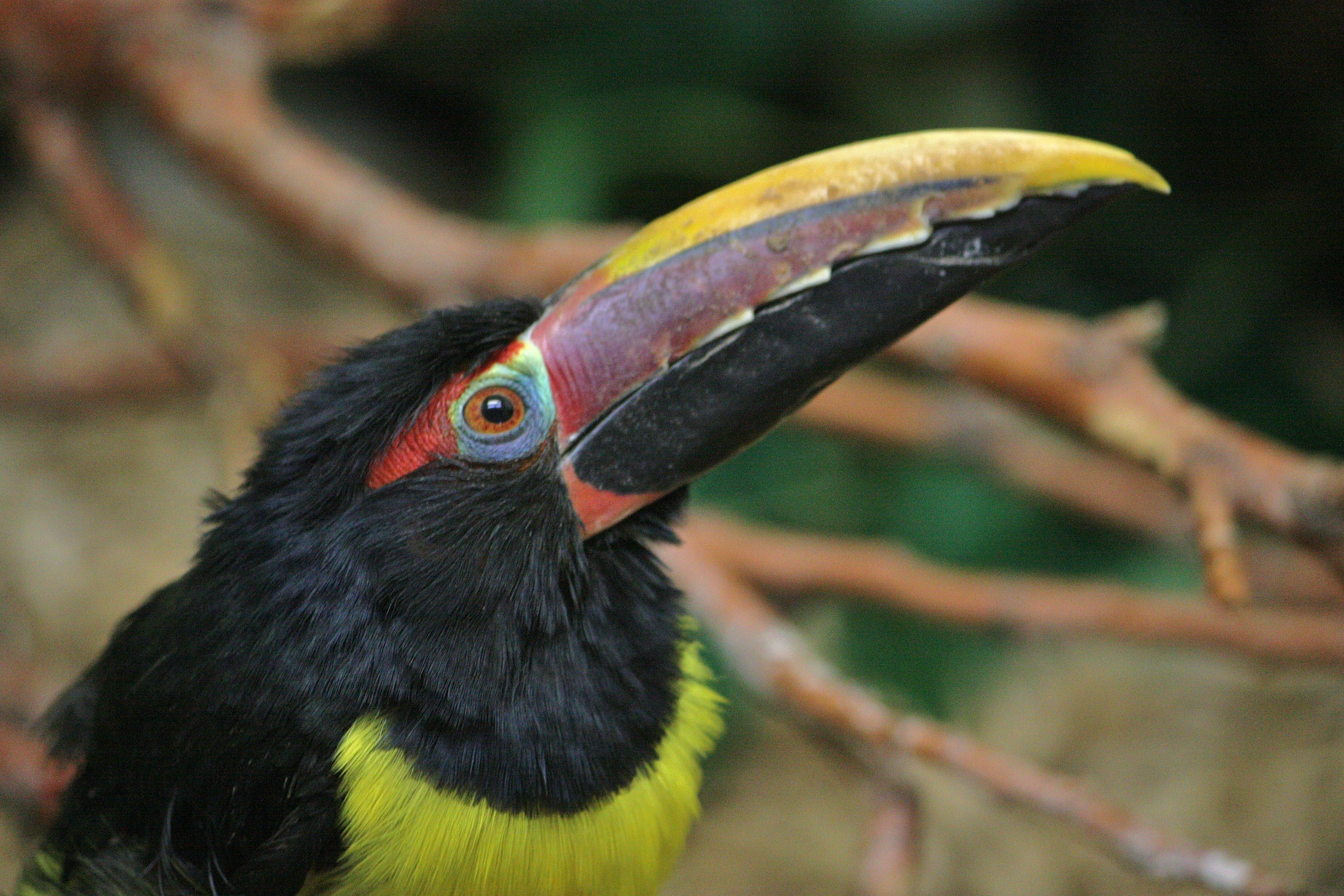 Green Aracari (Pteroglossus viridis); perched male, closeup of head. Denver Zoo, Denver, Colorado.